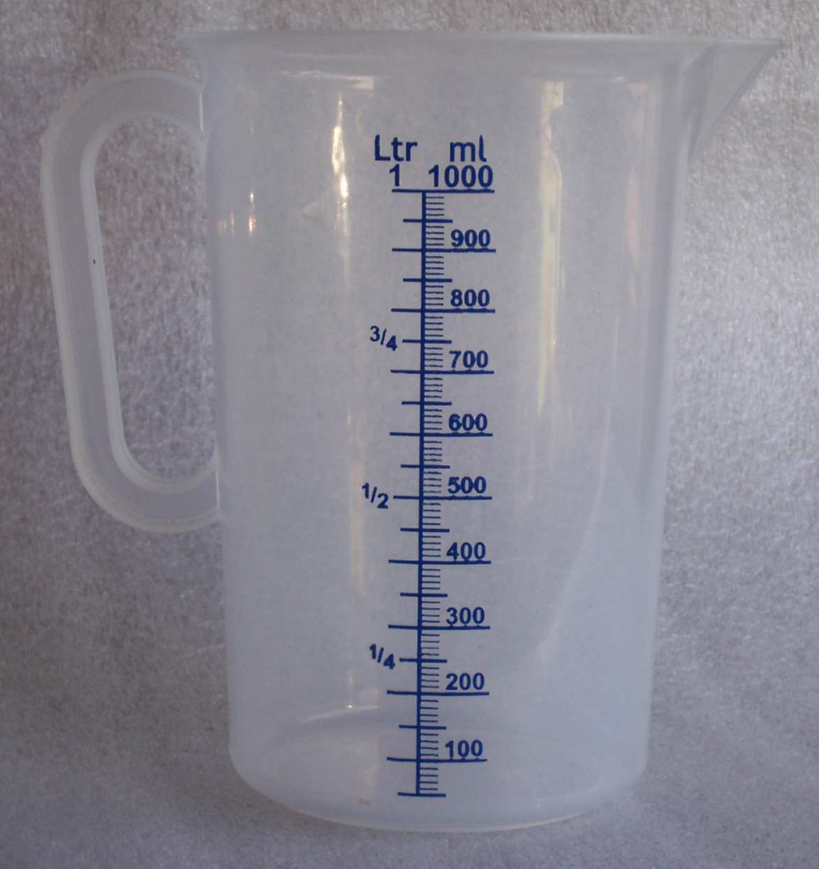 simple measuring cup